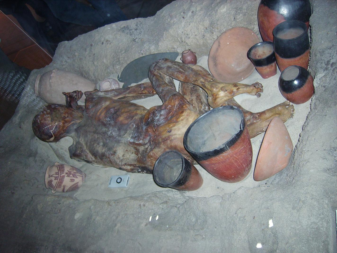 Typical Egyptian Grave containing the naturally-preserved body of a man with a collection of grave-goods. Late Predynastic, about 3400 BC. Now kept in British Museum.